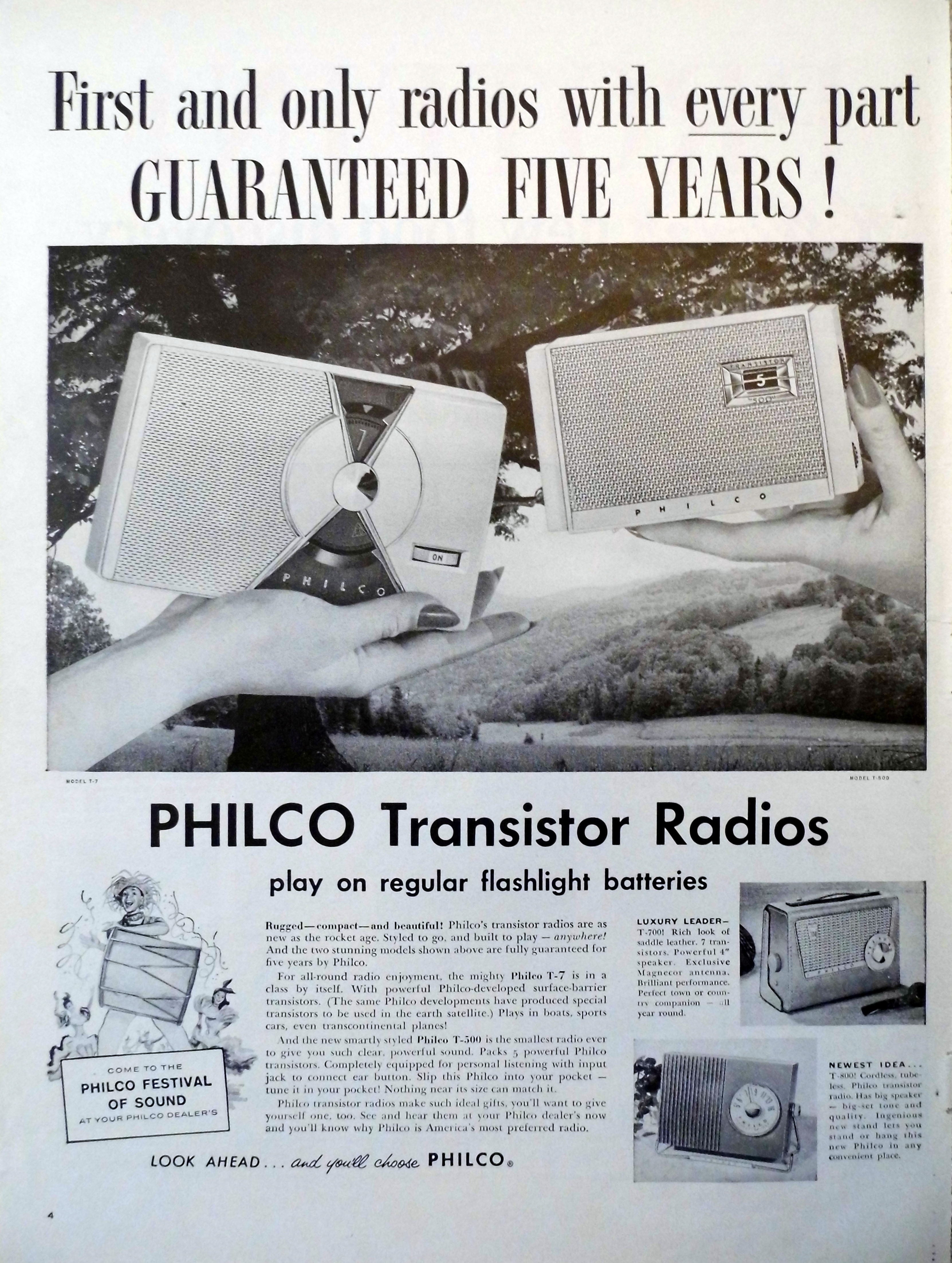 Vintage Radio Advertising - Philco Transistor Radios, "First and only radios with every part Guaranteed Five Years!", Models T-7, T-500, T-700 and T-800, Circa 1957